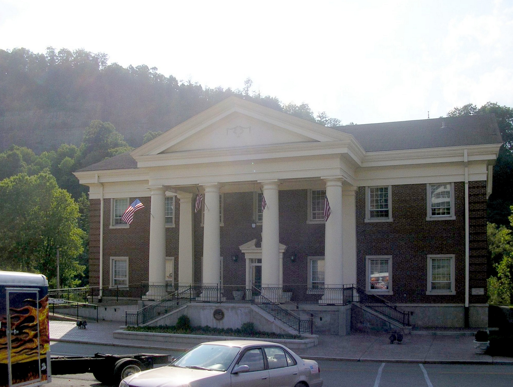 City Hall on Main Street, KY 2449, in Hazard, Kentucky, built 1980